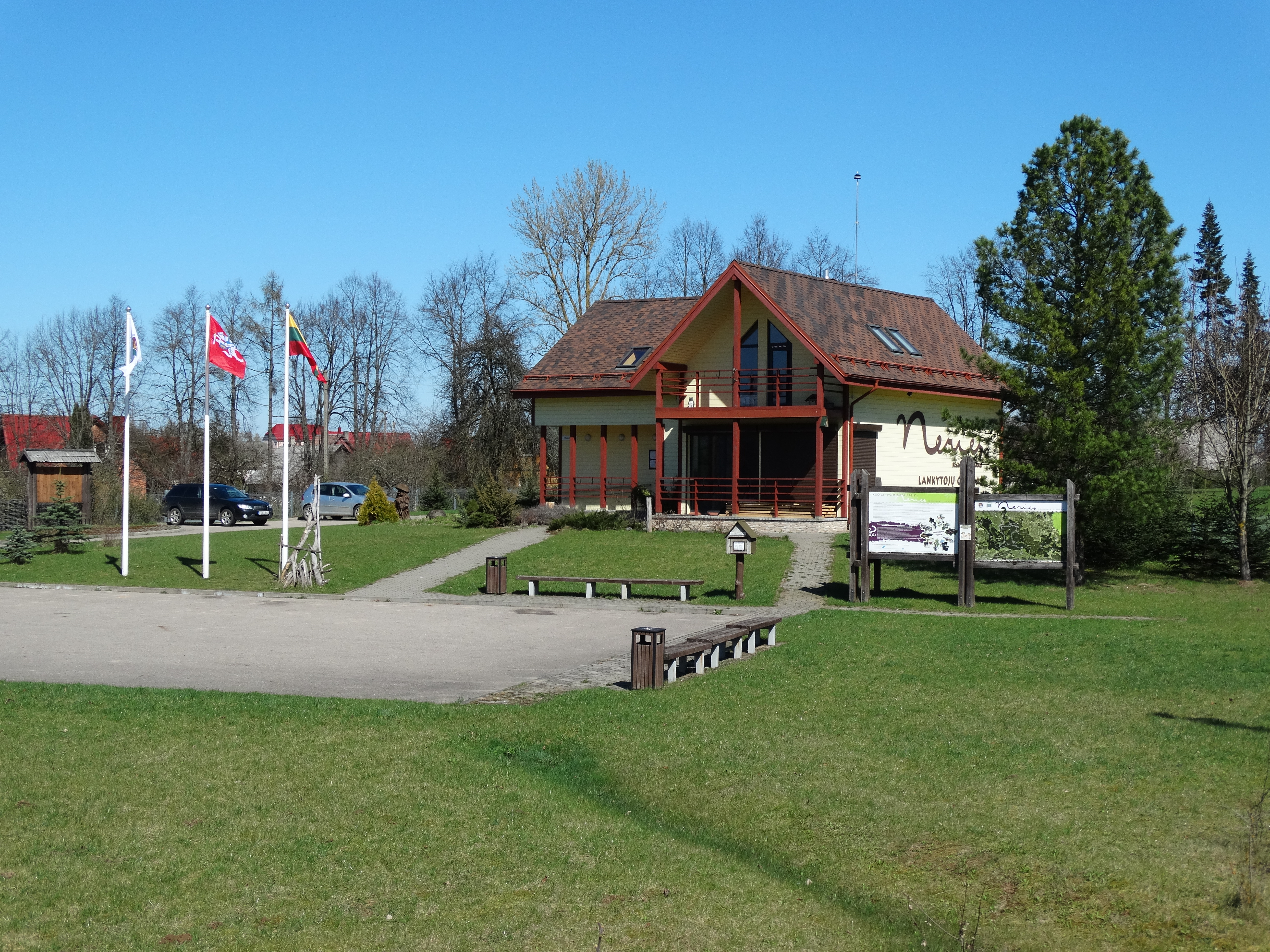 Neris park office, Dūkštos, Vilnius district, Lithuania